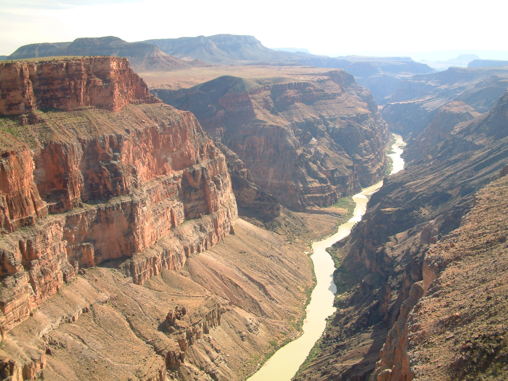 February's #nationalconservationlands, BLM Winter Bucket List, Grand Canyon-Parashant National Monument in Arizona for Its Dark Sky Park Status The Grand Canyon-Parashant National Monument is a vast remote landscape where the only nighttime light comes from the stars. The International Dark Sky Association (IDA) recognized the unspoiled quality of its pristine and breathtaking night skies with an official IDA designation as “Parashant International Night Sky Province,” joining an elite group of other international Night Sky Places around the globe. Twenty-two organizations throughout the southwestern United States supported the Grand Canyon-Parashant National Monument’s nomination for IDA’s “Dark Sky Park” status, including the scientific community. Its pristine “Gold Tier” night sky view creates prime research and discovery opportunities. The scenery continues to impress during the day at this rugged corner of northern Arizona, with views stretching from the lower portion of the Grand Canyon to the pine clad peaks of Mount Trumbull and Mount Logan Wilderness Areas. Grand Canyon-Parashant National Monument is jointly managed by the Bureau of Land Management and the National Park Service. Photos by Bob Wick, BLM